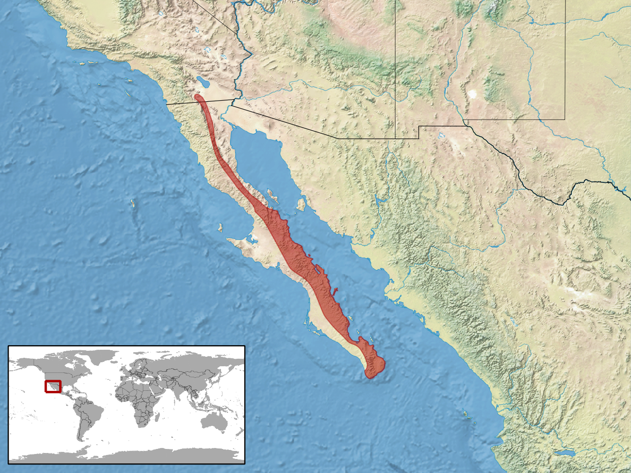 geographic distribution of Bogertophis rosaliae (Native: Mexico; United States)